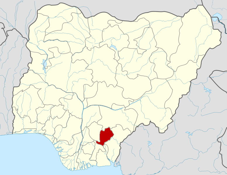 Map locator of Nigeria.